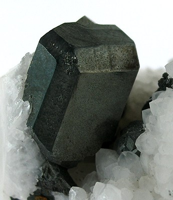 Tennantite, Quartz Locality: Concepción del Oro, Municipio de Concepción del Oro, Zacatecas, Mexico (Locality at ) Size: 12 x 10 x 7.8 cm. This specimen from the Dr Miguel Romero collection was on loan exhibition to the University of Arizona Museum for over a decade, until my purchase of this collection in 2008. It was on display in special cases at the museum, and has since been featured in the book "The Miguel Romero Collection of Mexico Minerals" which we sponsored as a special supplement book (published by the Mineralogical Record in December of 2008).